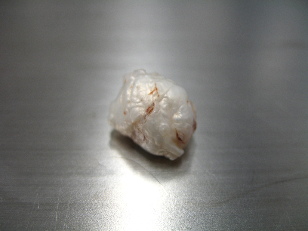 Surgical specimen of a epidermoid cyst in the brain arising from misplaced squamous epithelial tissue. These lesions are also named "pearly tumors"